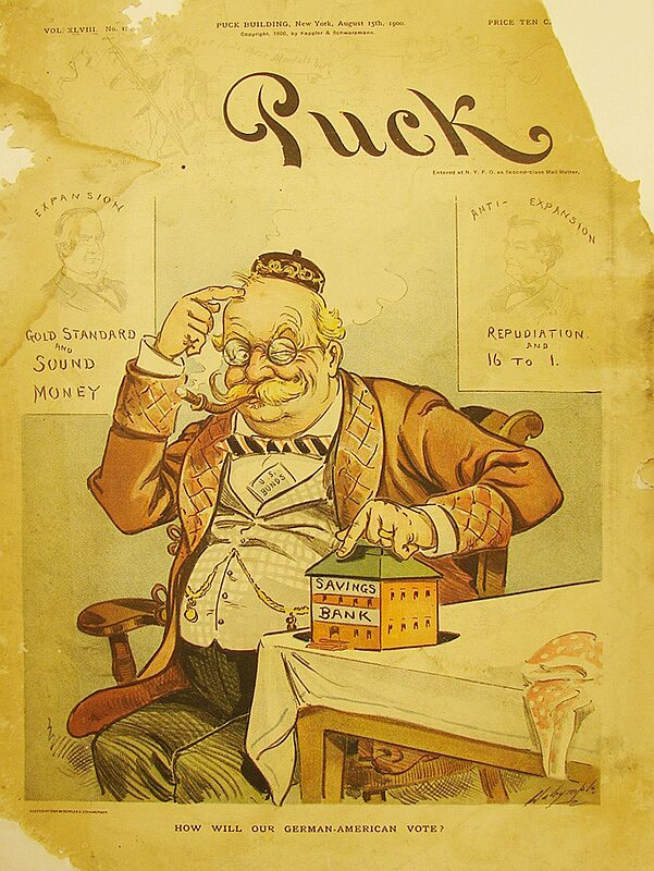 Puck cover